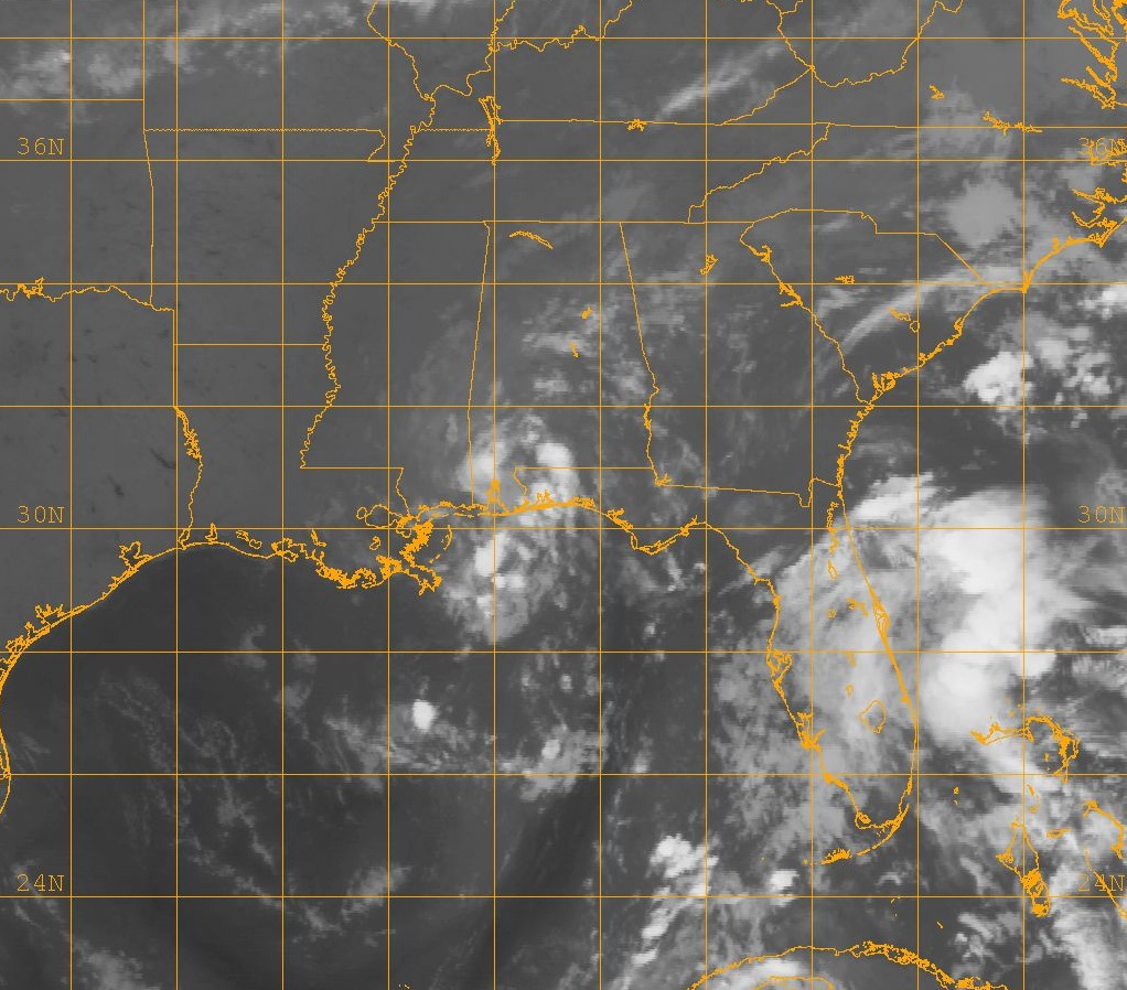 Tropical Depession 10 of 2007, photographed in infrared from GOES-12 satellite at 0645Z September 22.